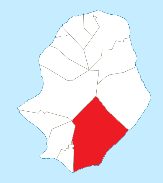 Location map for Hakupu, Niue. Based on file:Niue location map.svg.